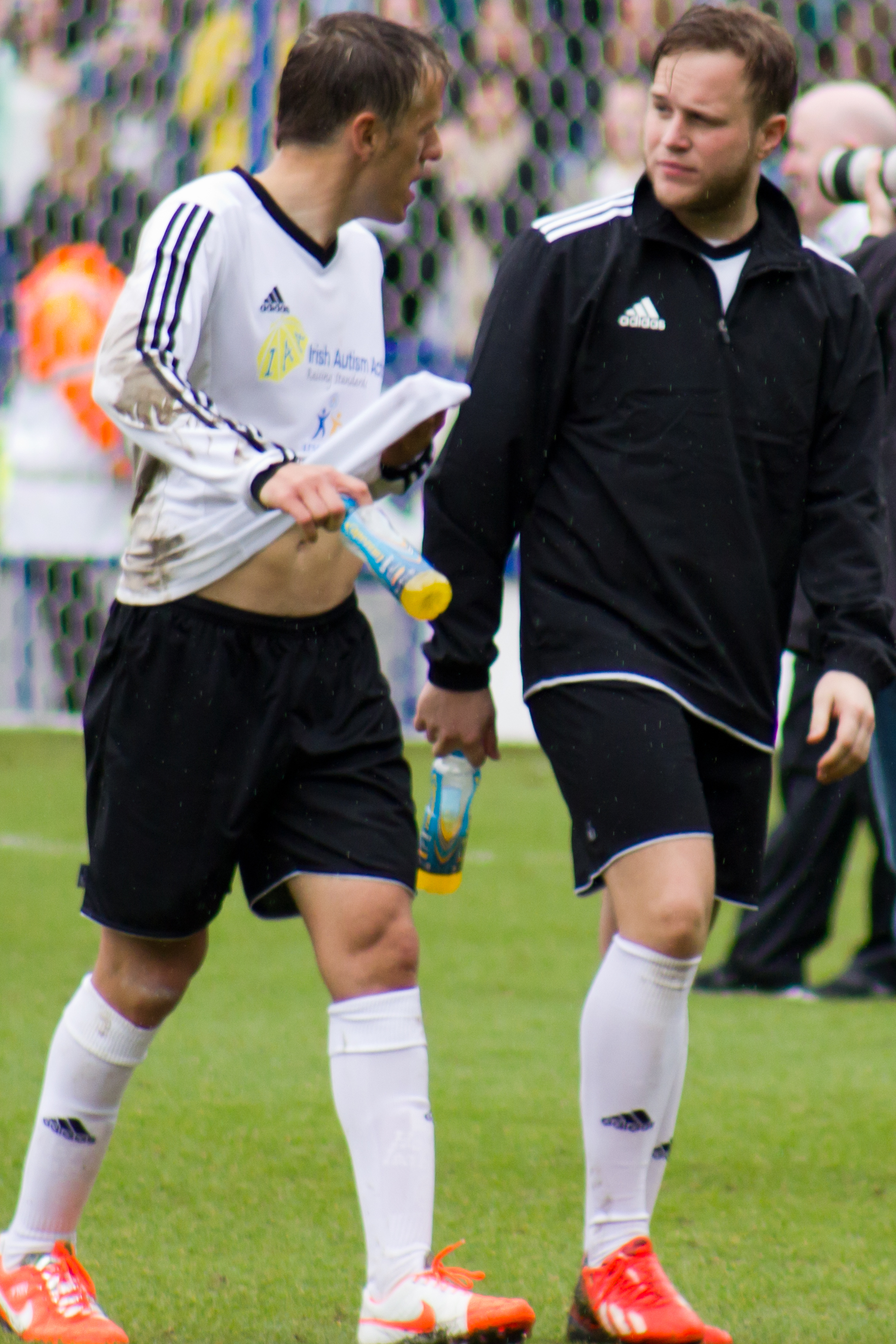 Phil Neville & Olly Murs